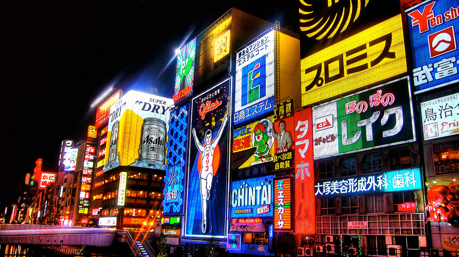 Ebisubashi, Dōtonbori